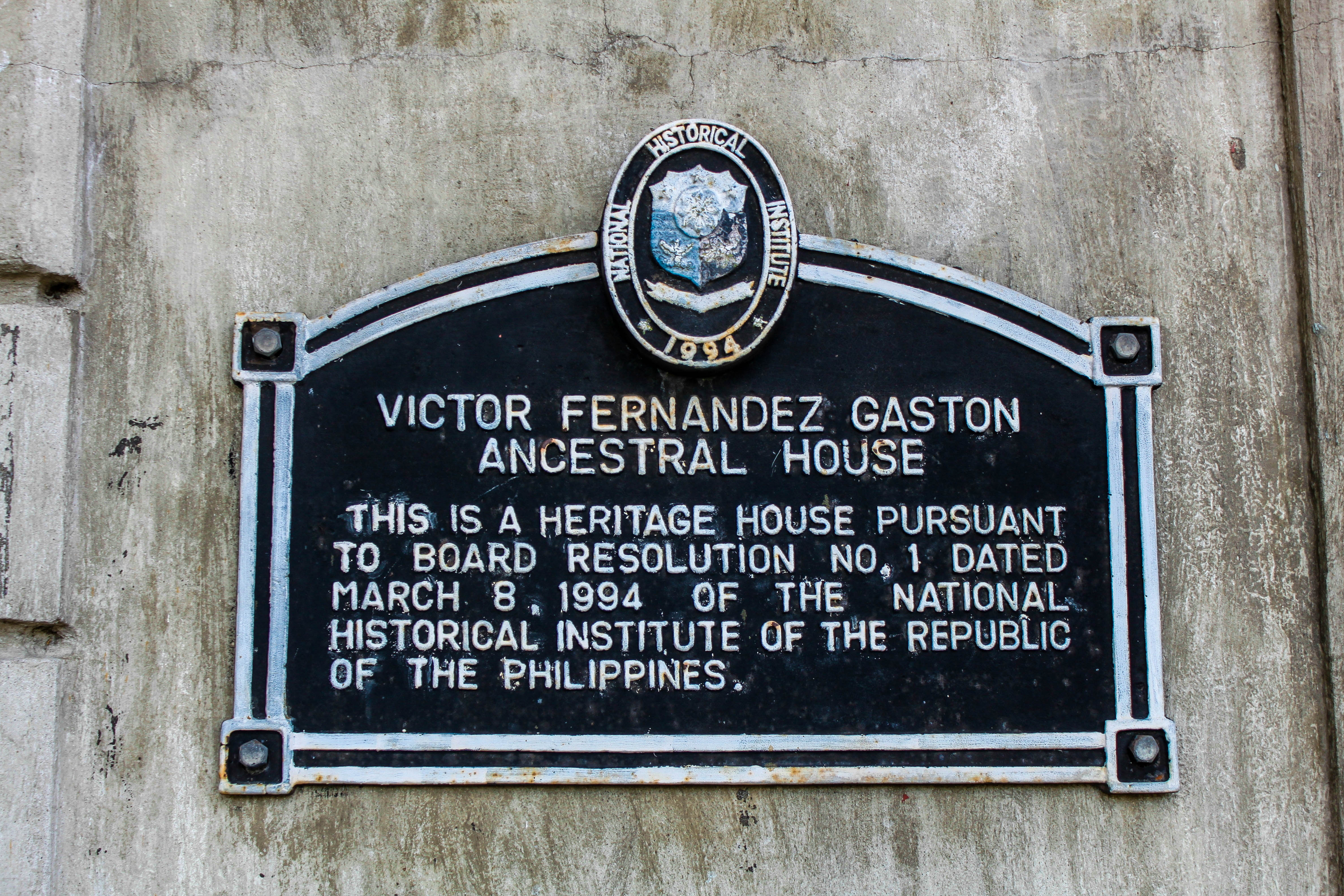 Historical Marker at the Victor Fernandez Gaston Ancestral House Silay, Negros Occidental